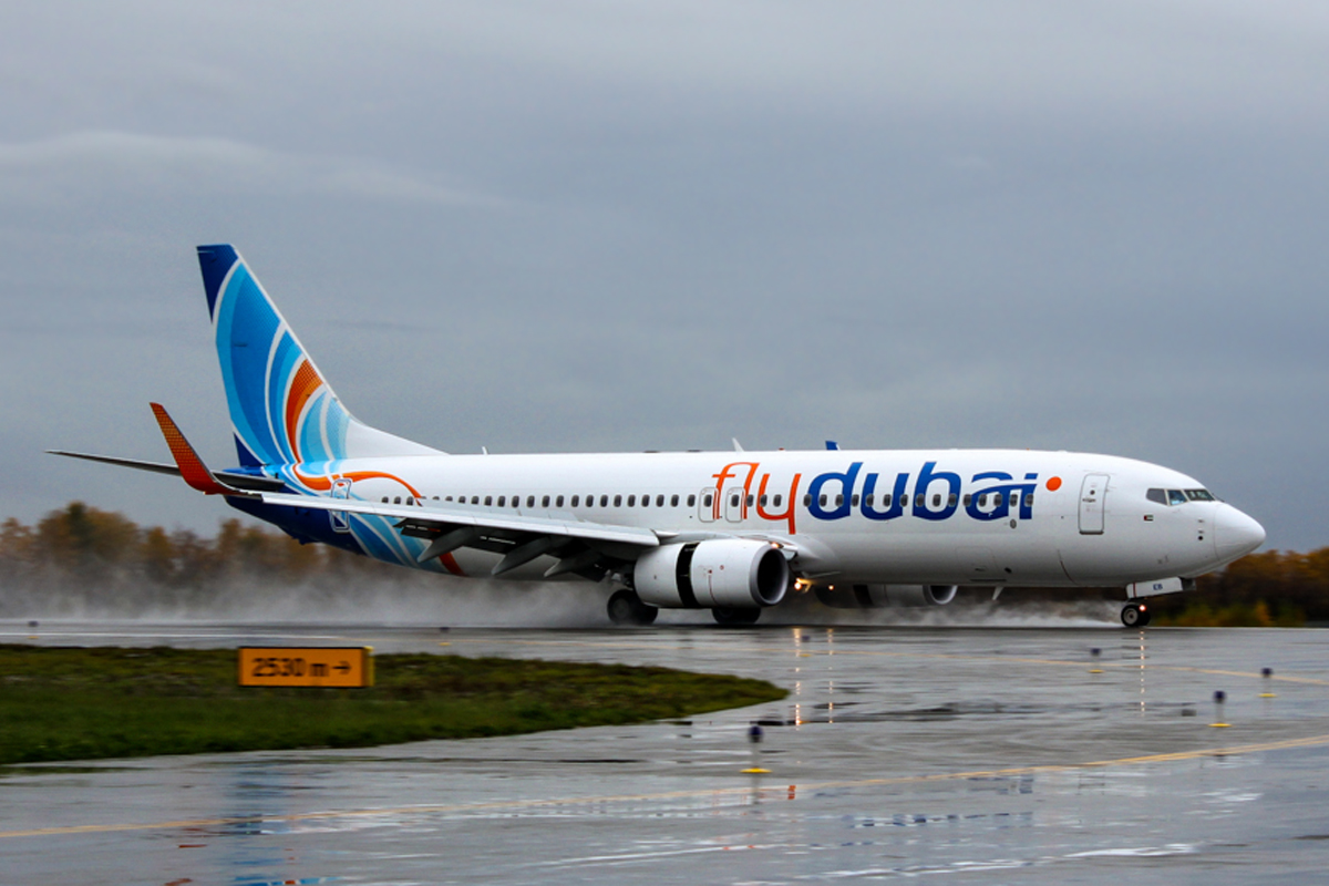 Photo created in Kazan airport. Second official spotting